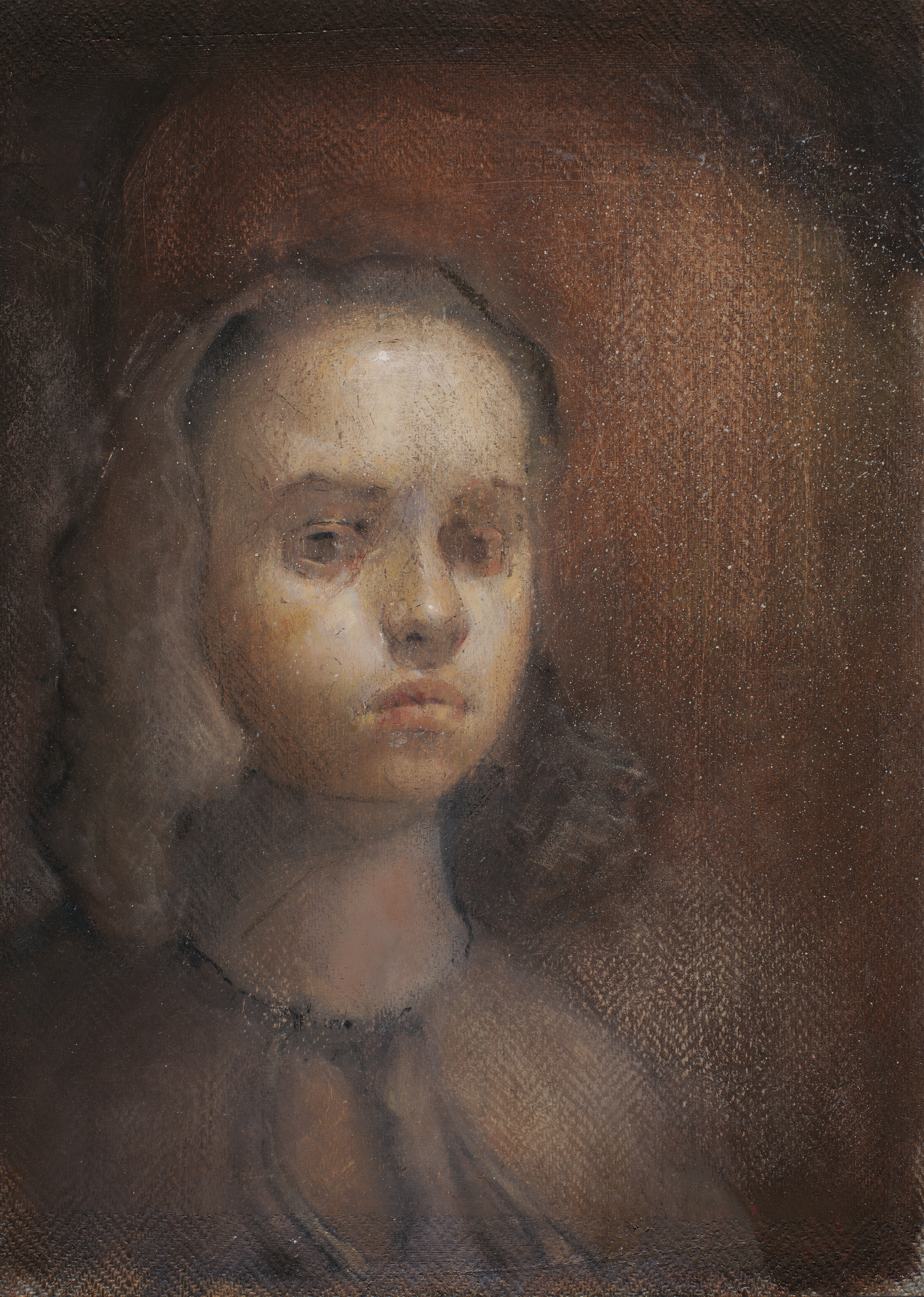 Self-portrait of William Heimdal photographed by Öde Spildo Nerdrum. Öde Nerdrum's own work. Also uploaded on Credit: Öde Nerdrum